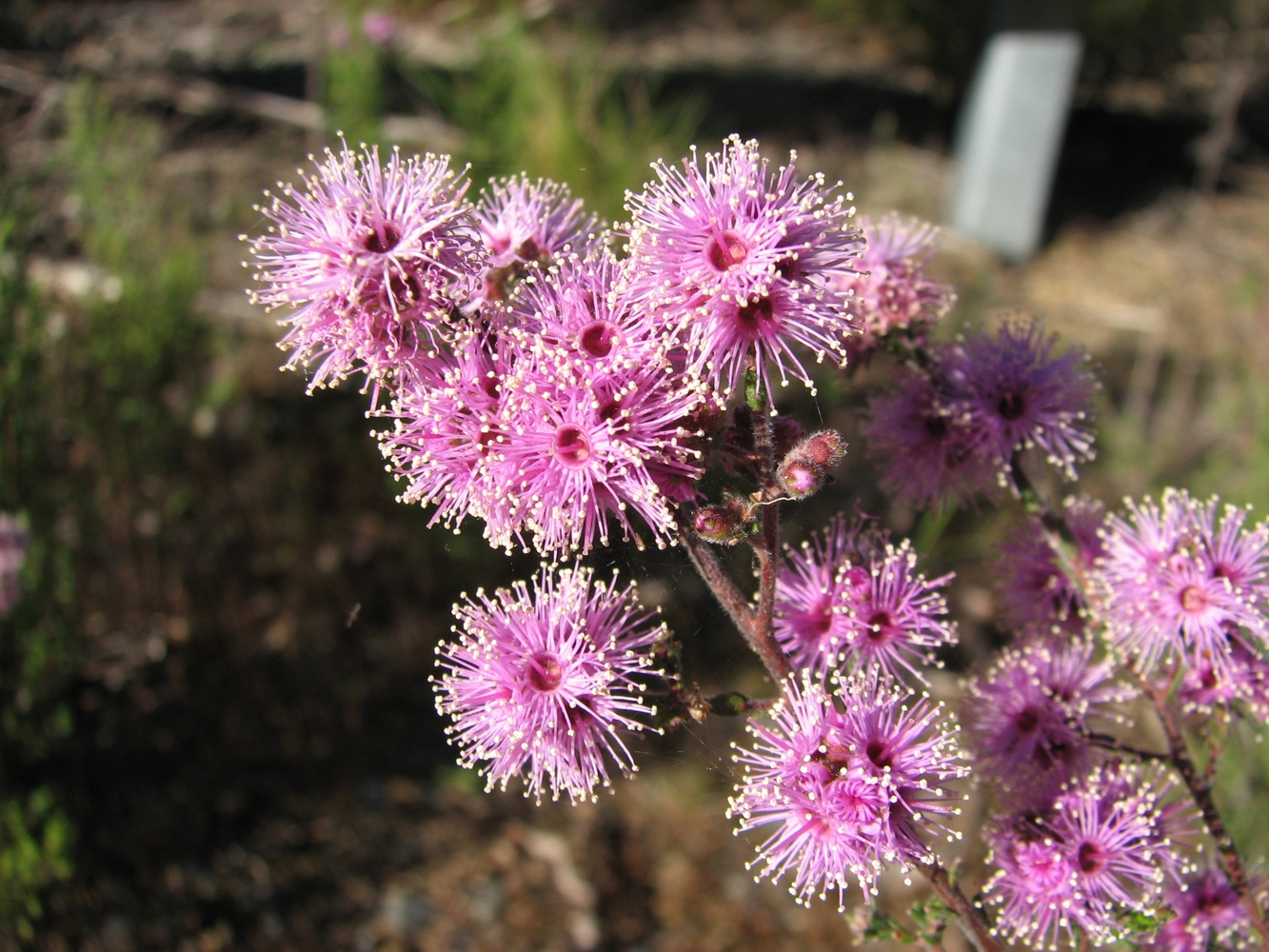 Kunzea parvifolia, Mount Buffalo National Park, Victoria, Australia